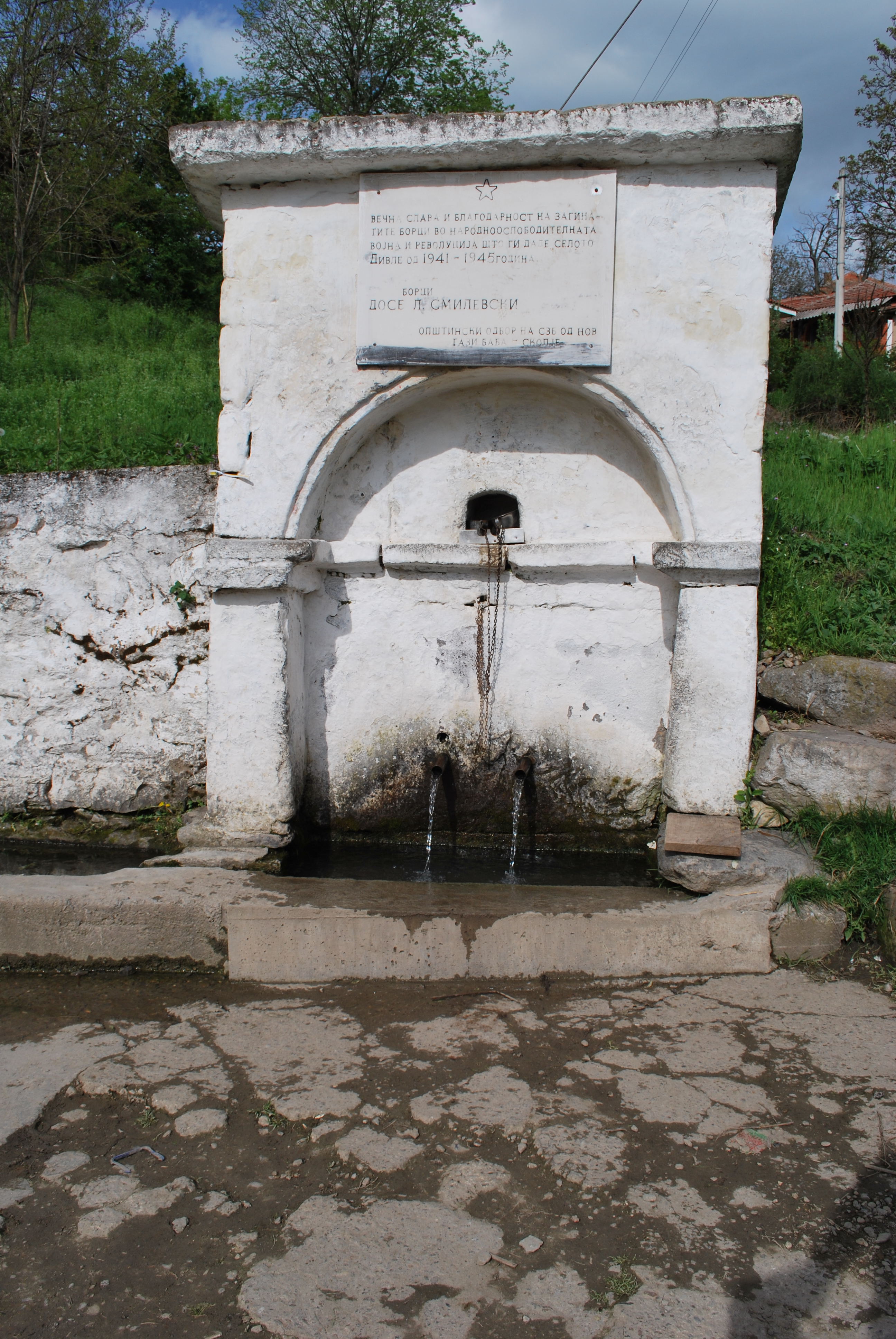 Divlje, Macedonia